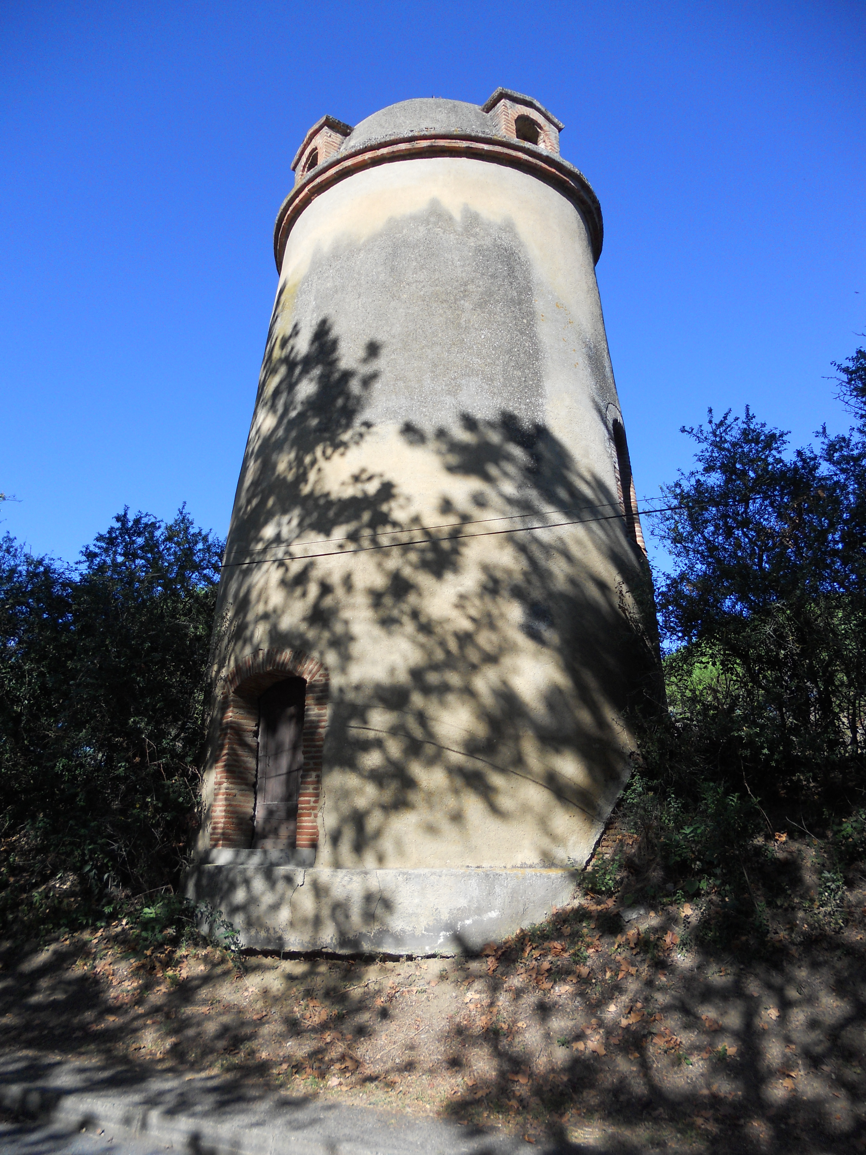 Dovecote of Pompertuzat .